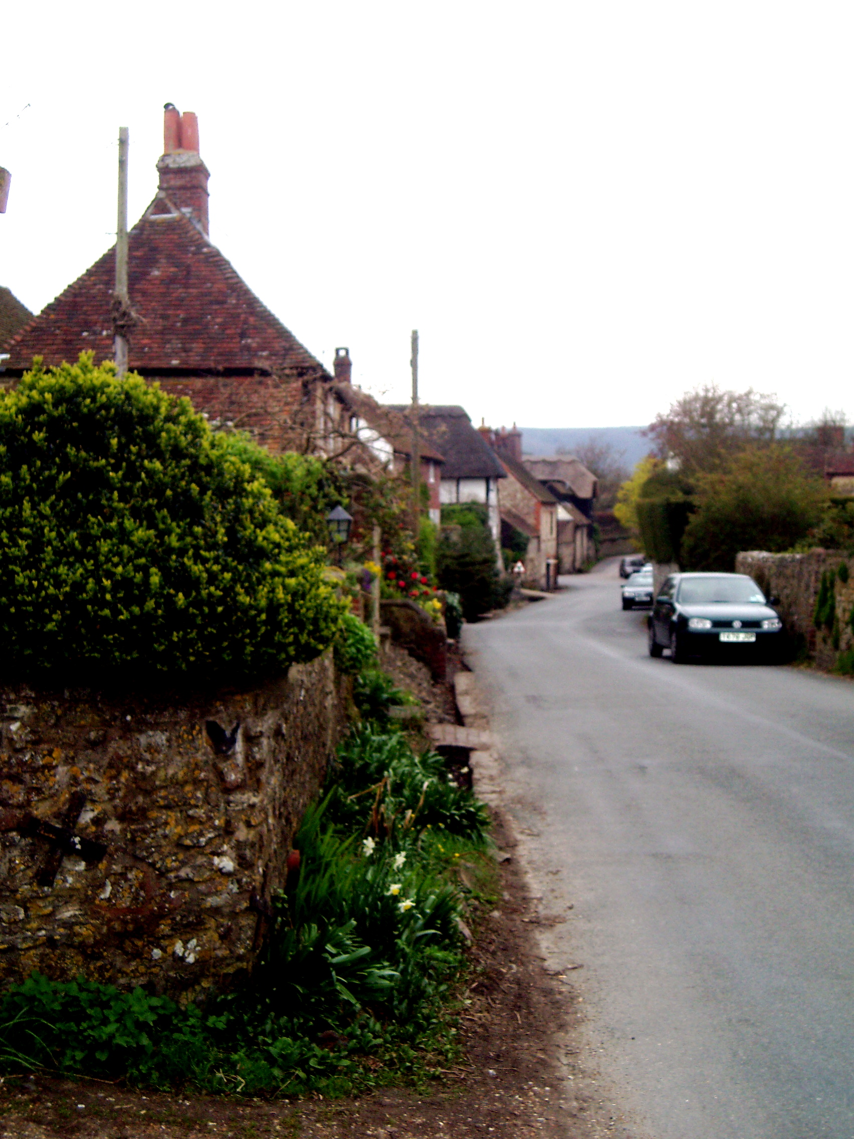 Amberley village, West Sussex. Image: J. Skinner, 2005.